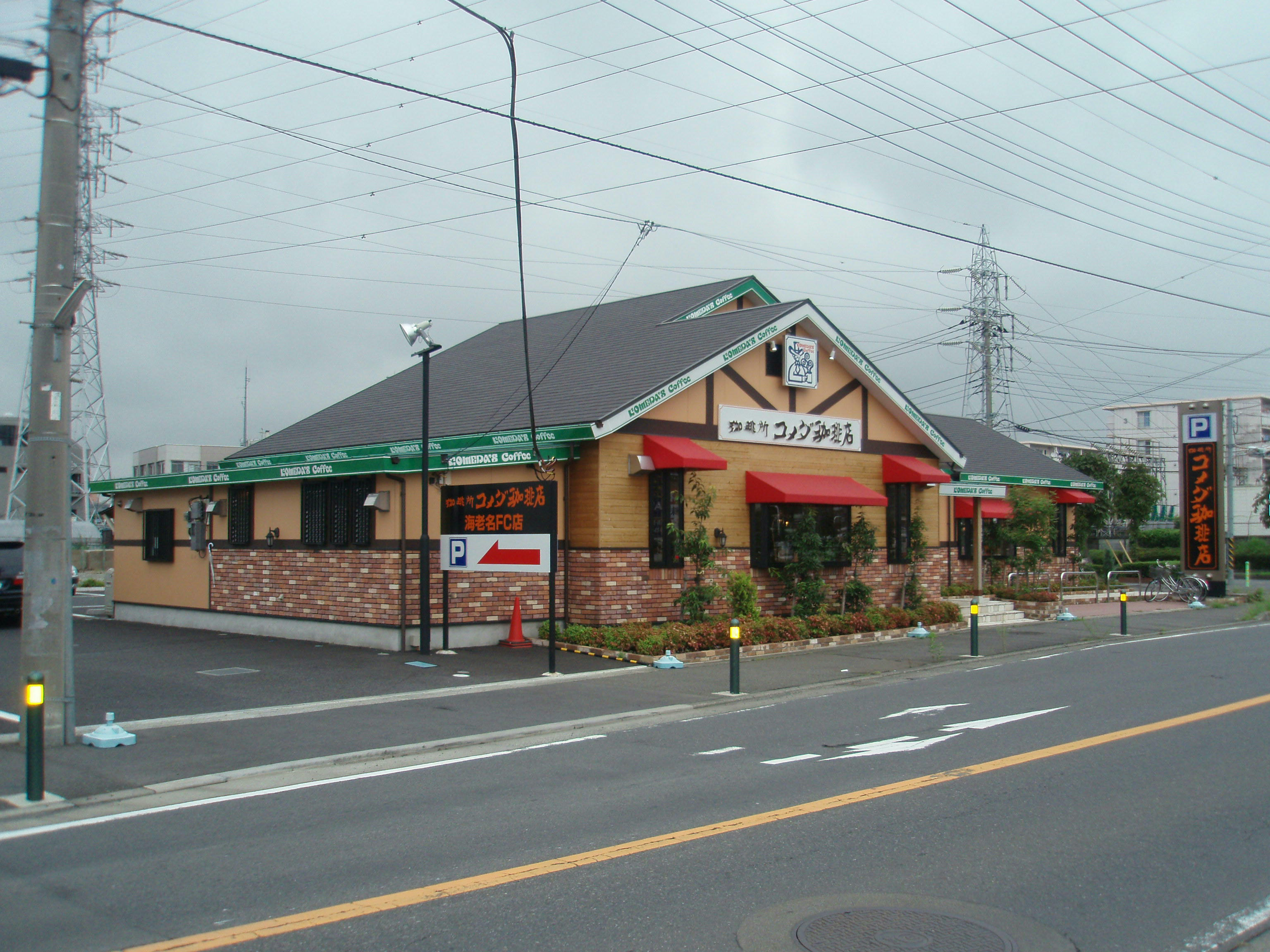 KOMEDA's coffee, Ebina Branch